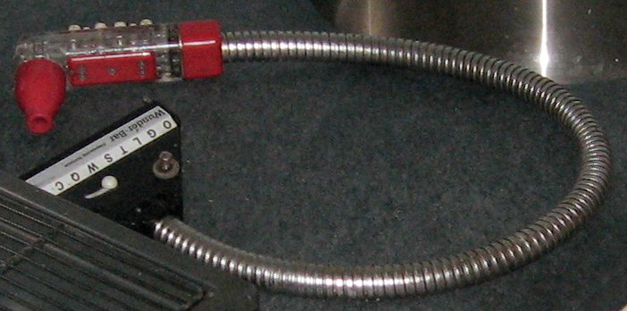 Cropped image of a soda gun.